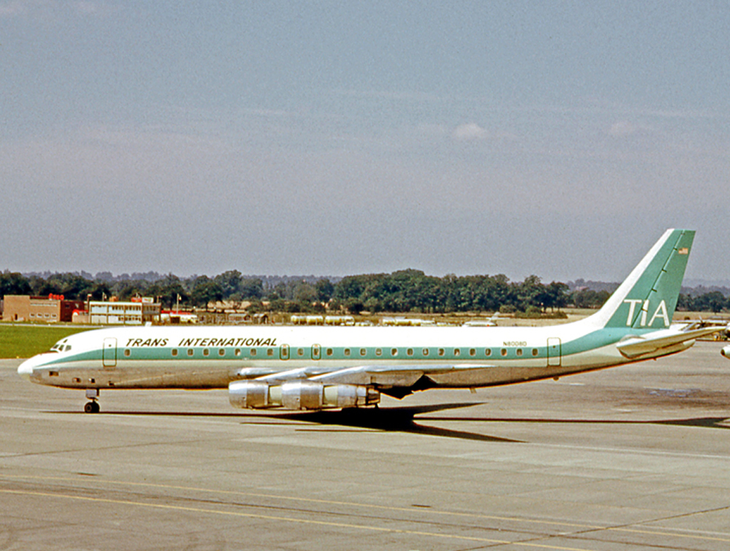 The first Douglas DC-8 N8008D, in service with Trans International Airways in 1966 at London Gatwick Airport